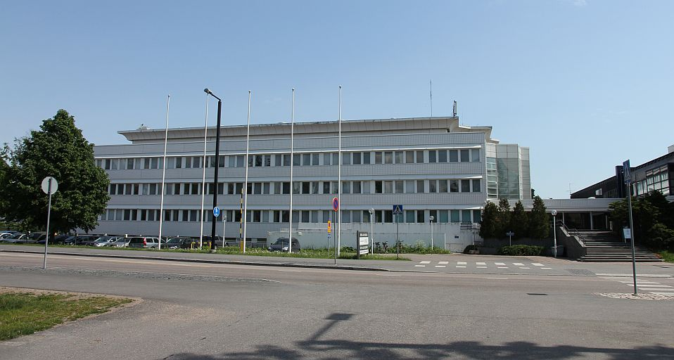 Vantaa police house. Address: Kielotie 21, Tikkurila, 01300 Vantaa, Finland. The neighboring house (Vantaa courthouse, to the right) shares the same street address and is home of the Vantaa district court.